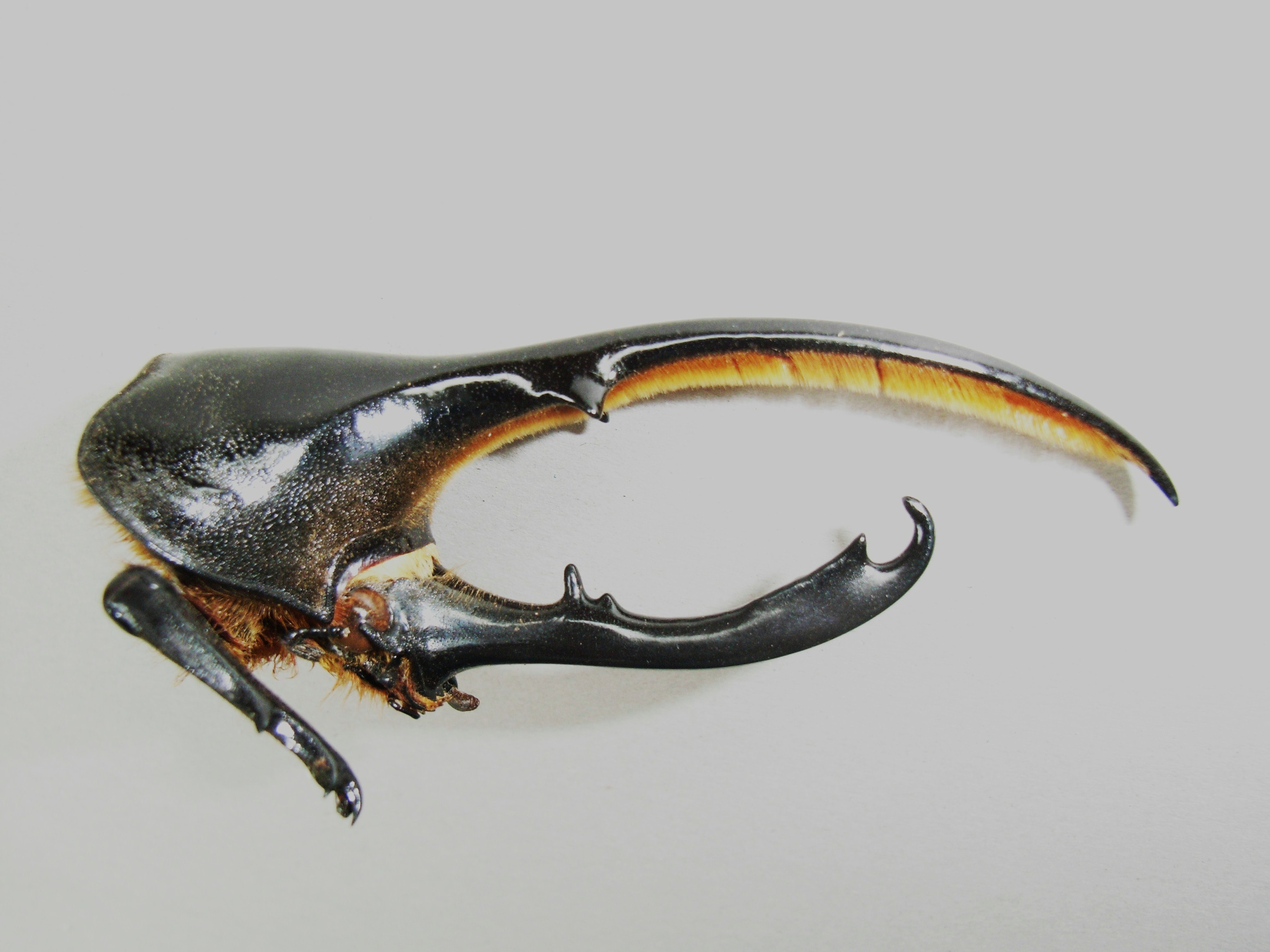 Dynastes hercules Head